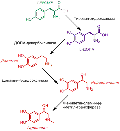 Synthesis of catecholaminic biogene amines (coloured in red).